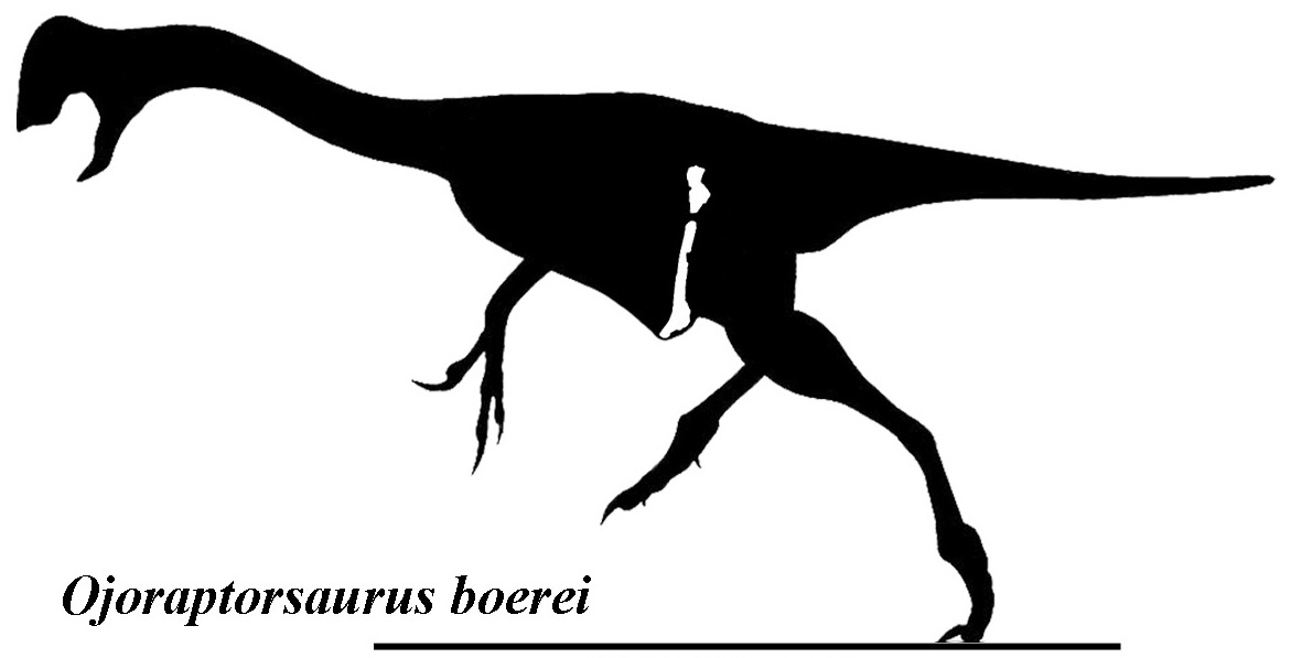 Skeletal reconstruction of Ojoraptorsaurus boerei.